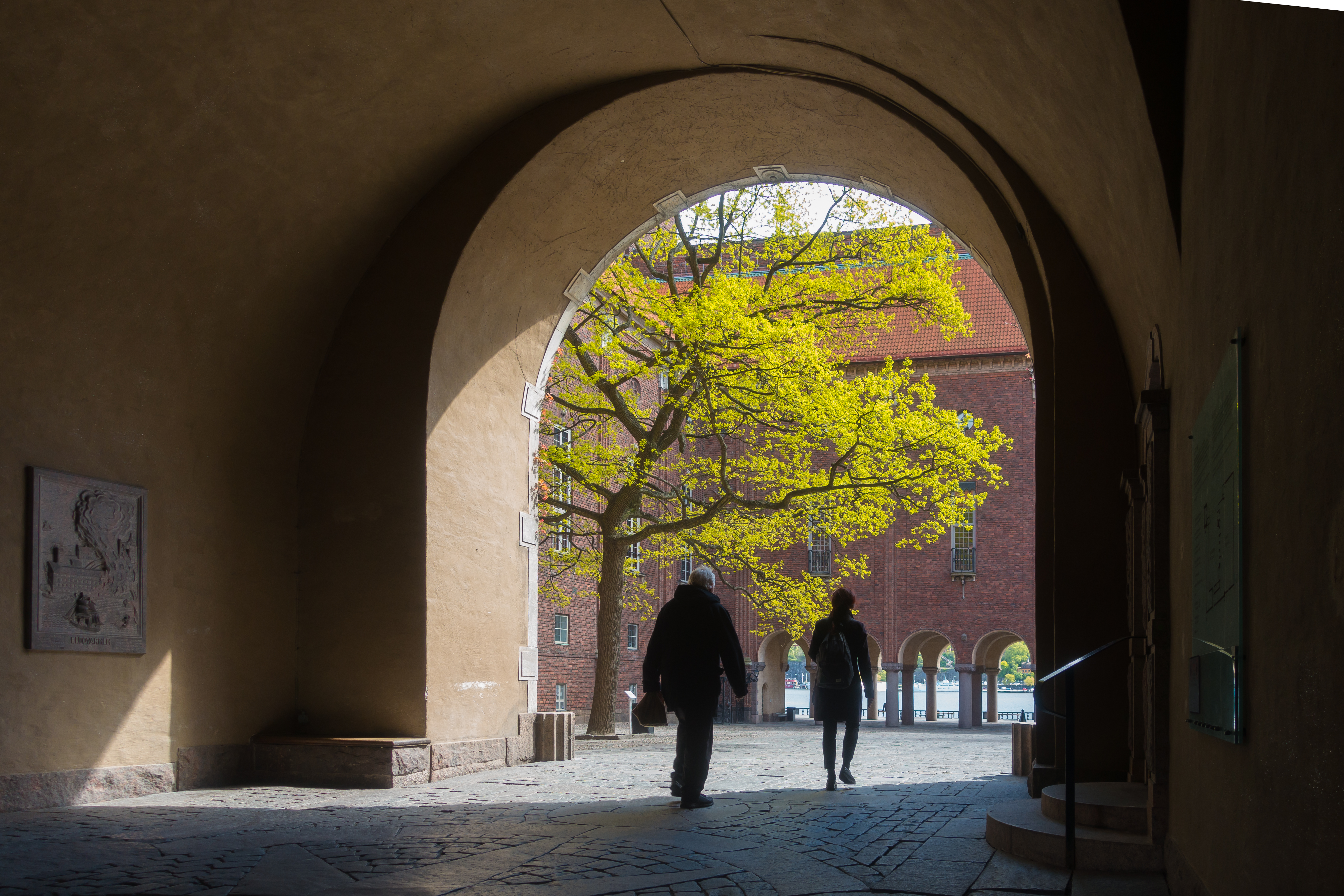 Romanesque arch in the main entrance to Stockholm City Hall.